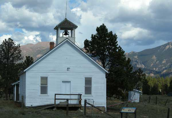 Old schoolhouse in Tarryall, Colorado, USA